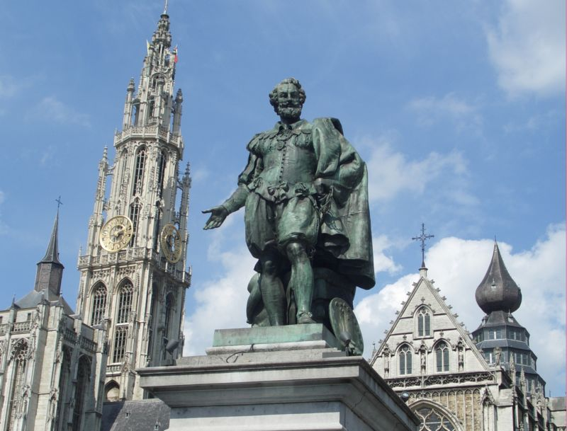 Rubens a Anvers